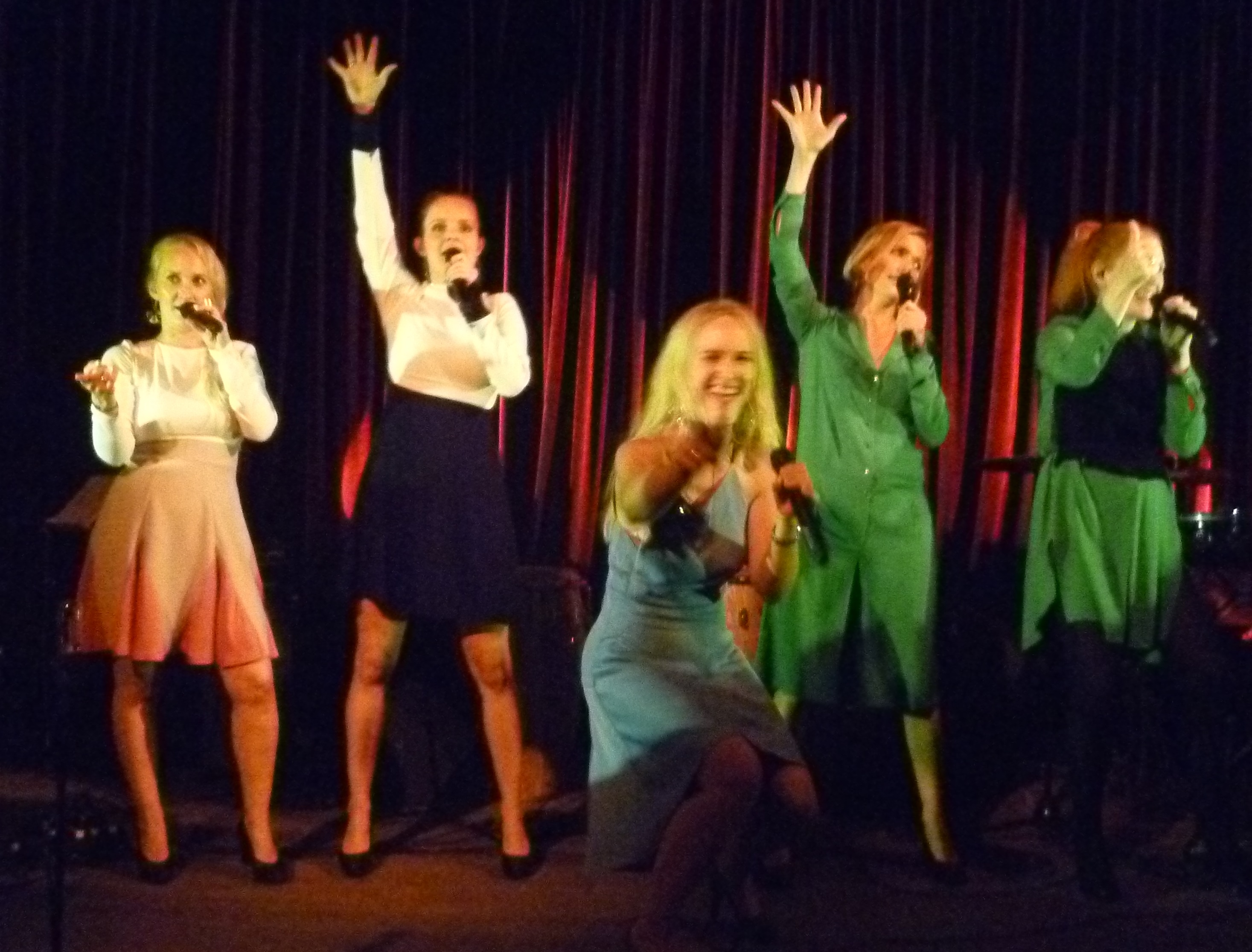 Pitsj with Anja Eline Skybakmoen, Ane Carmen Roggen, Benedikte Shetelig Kruse, Ida Roggen and Anine Kruse Skatrud at Ingensteds September 10, 2016.